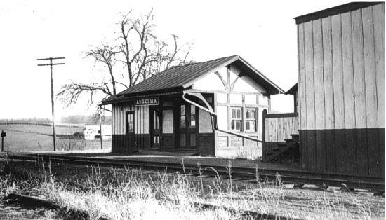 The Anselma station, West Pikeland Township, Chester County, on the Pickering Valley Railroad, ca. 1910